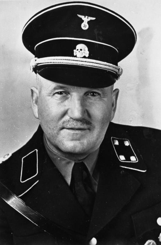 Information added by Wikimedia users.